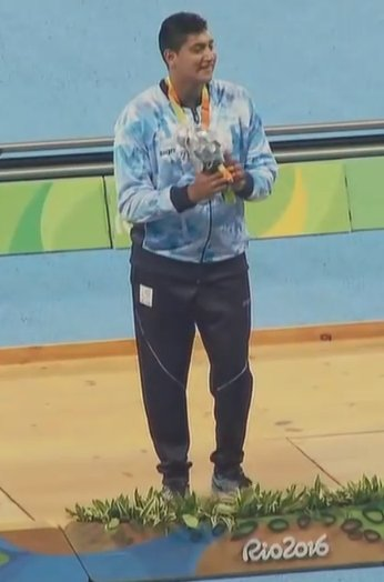 Hernán Urra receiving silver Medal put throwing F35 Río Paralympics 2016